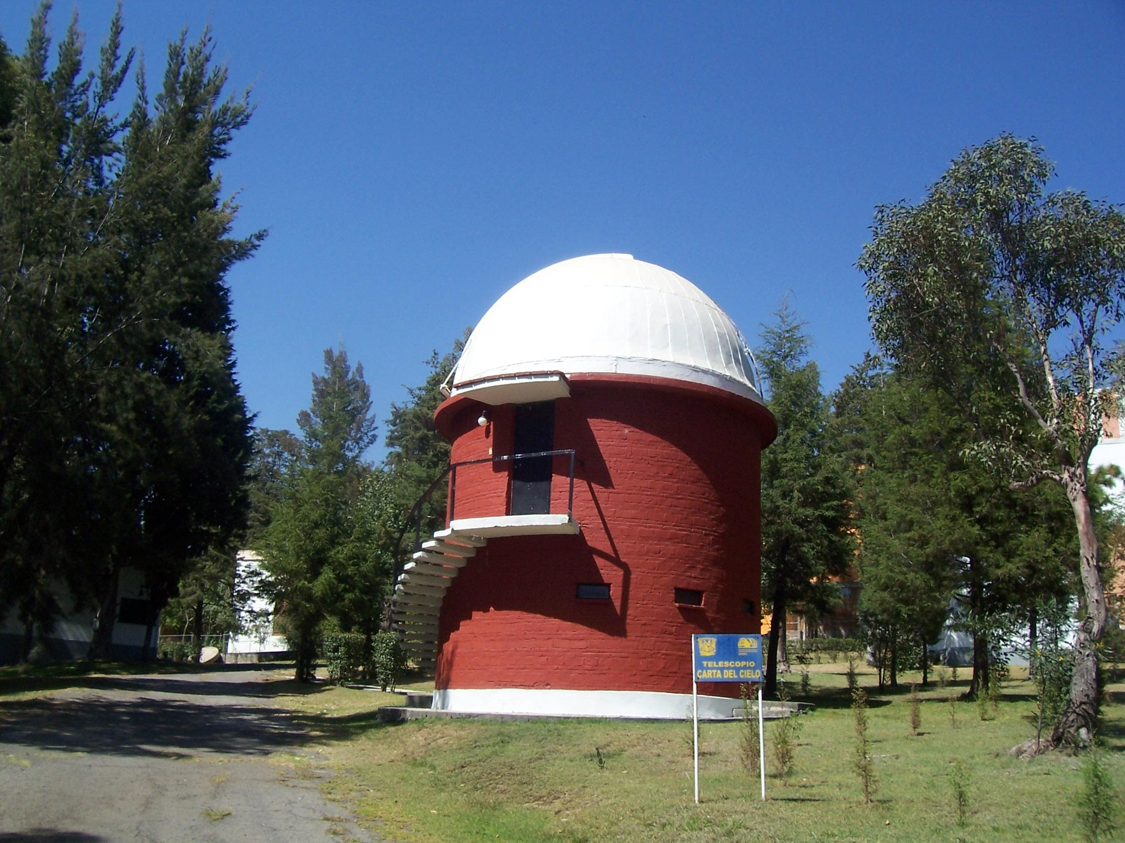 A 2004 photograph of the dome and outside building of the Carte du Ciel-type telescope at OAN Tonantzintla, state of Puebla, Mexico